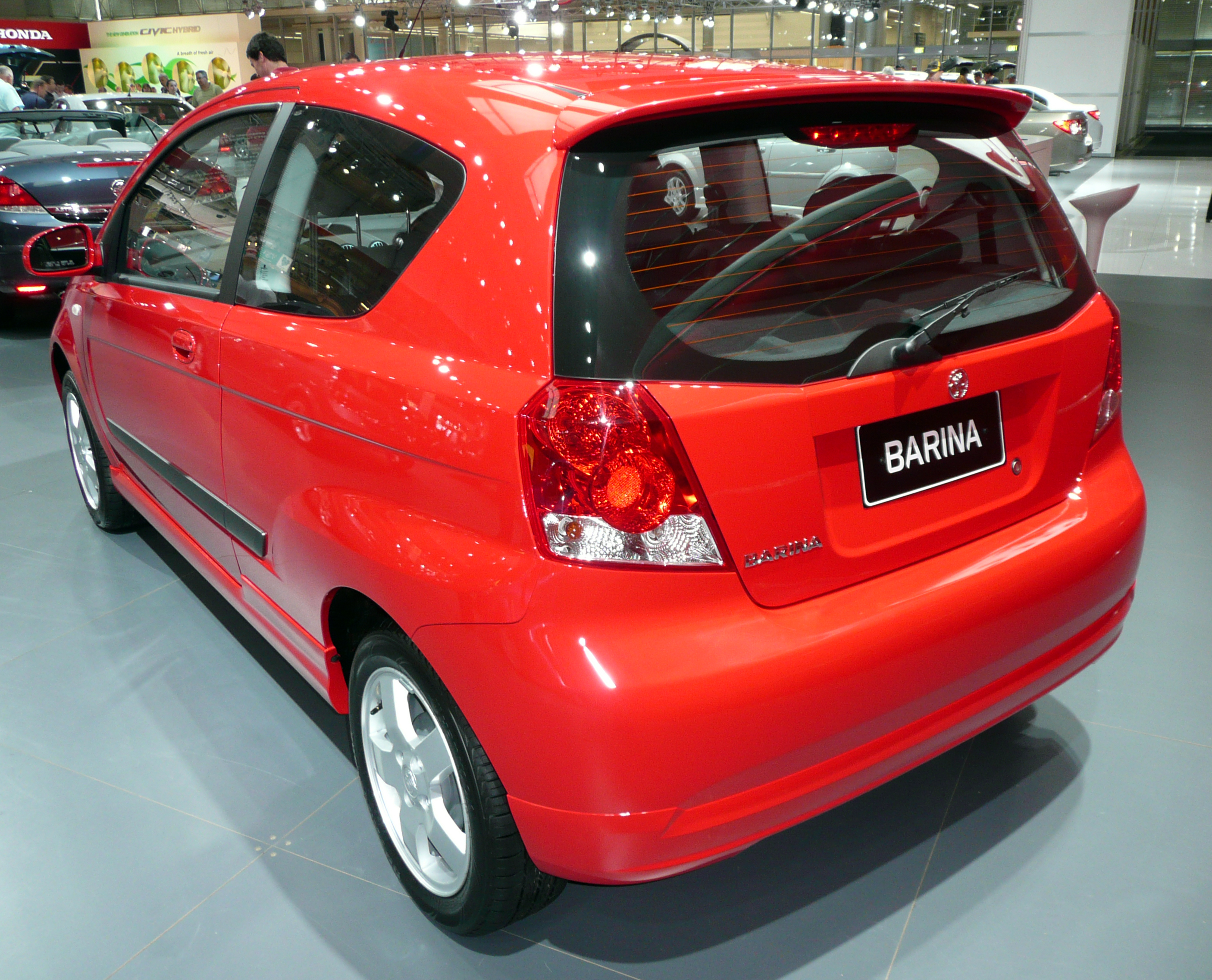 2007 Holden Barina (TK MY08) 3-door hatchback. Photographed at the 2007 Australian International Motor Show, Sydney, New South Wales, Australia.